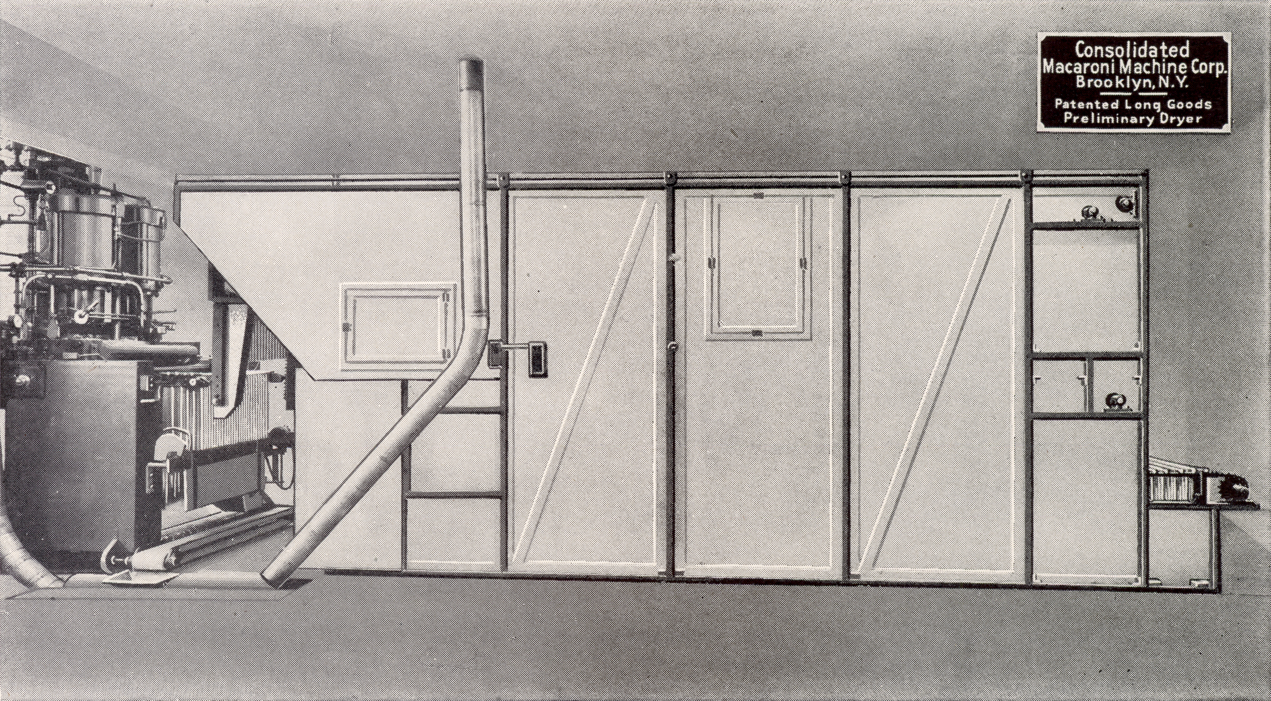 One of the first automated and continuous long goods dry pasta lines consisting of a hydraulic press, hydraulic spreader and long paste preliminary dryer with sweat chamber. This machine made long goods pasta, such as spaghetti with little handling and in continuous production instead of batch processing. This machine was built by Consolidated Macaroni Machine Corporation, Brooklyn, New York.